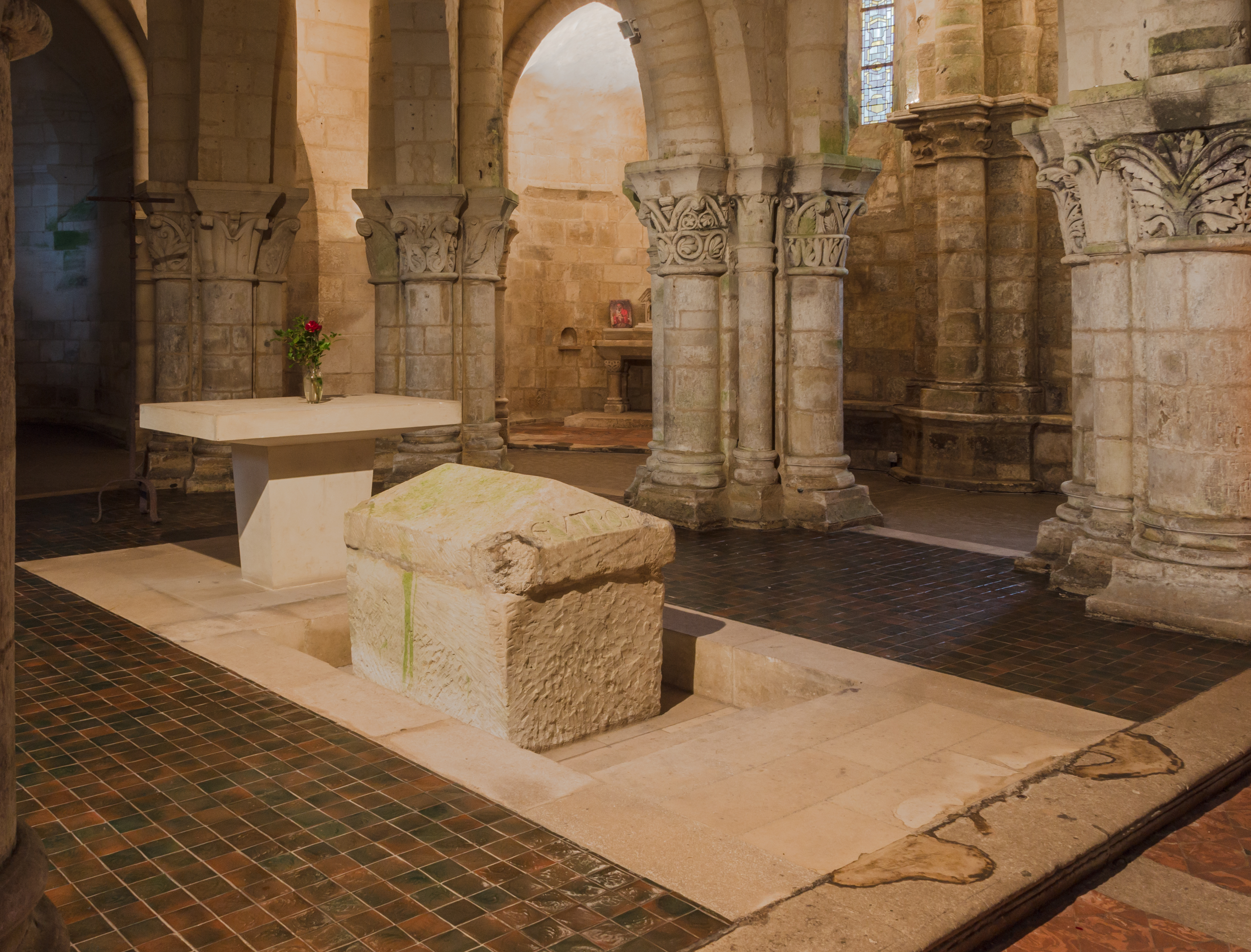 Choir, altar and sarcophagus of Saint-Eutropius romanesque crypt of the Basilica, Saintes, Charente-Maritime